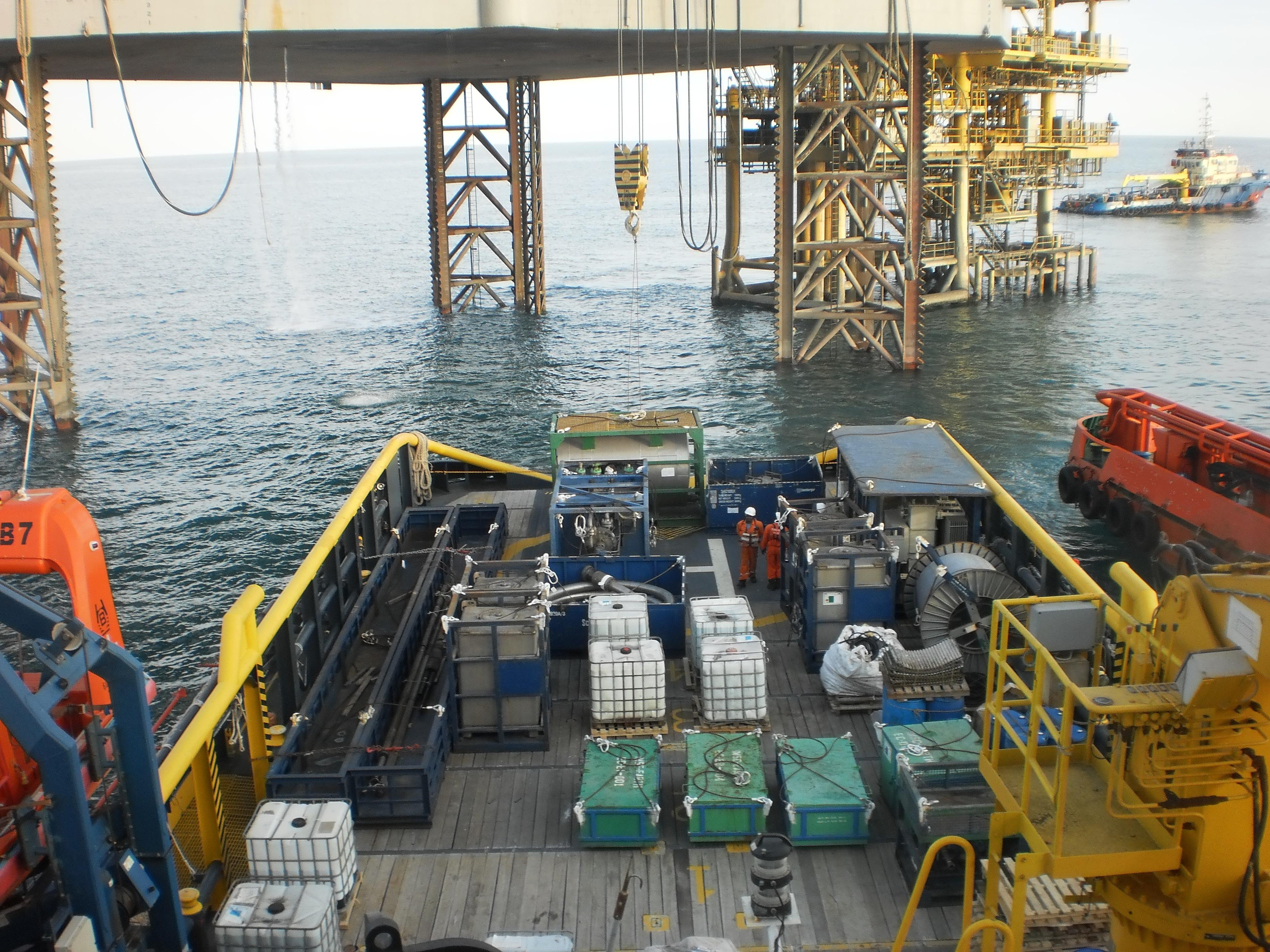 AHTS vessels deliver supply to drilling rig.